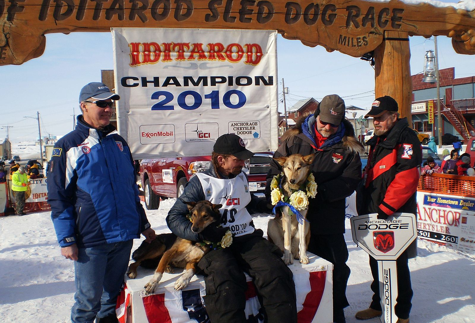 Lance Mackey poses with Maple and The Rev. after winning his fourth Iditarod.